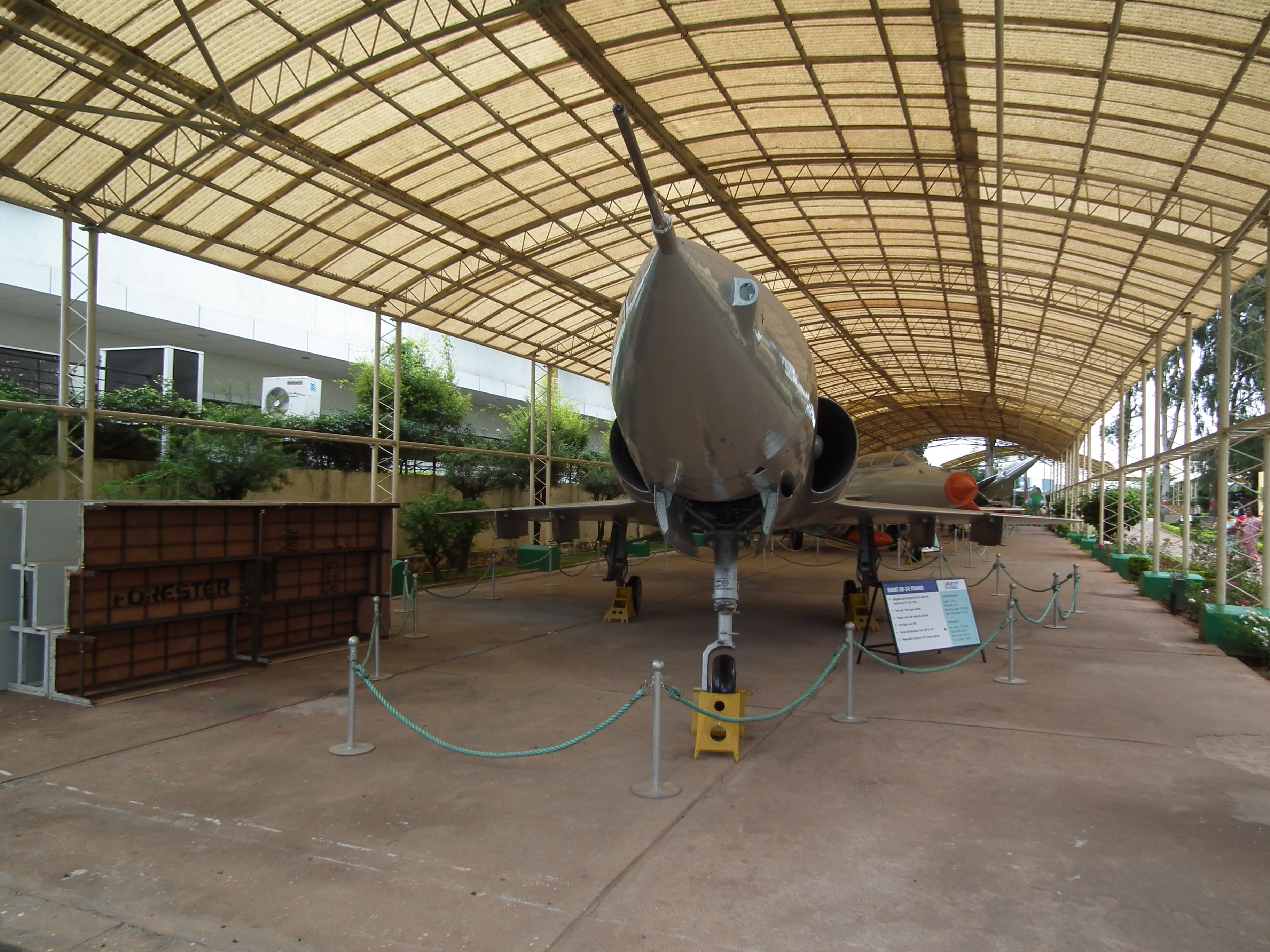 HAL HF-24 Marut trainer at HAL Museum